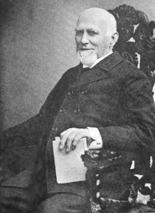 an Ohio politician named Samuel Shellabarger